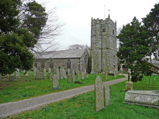 Parish church of St. Tetha, St Teath A large church in the centre of this Cornish village.